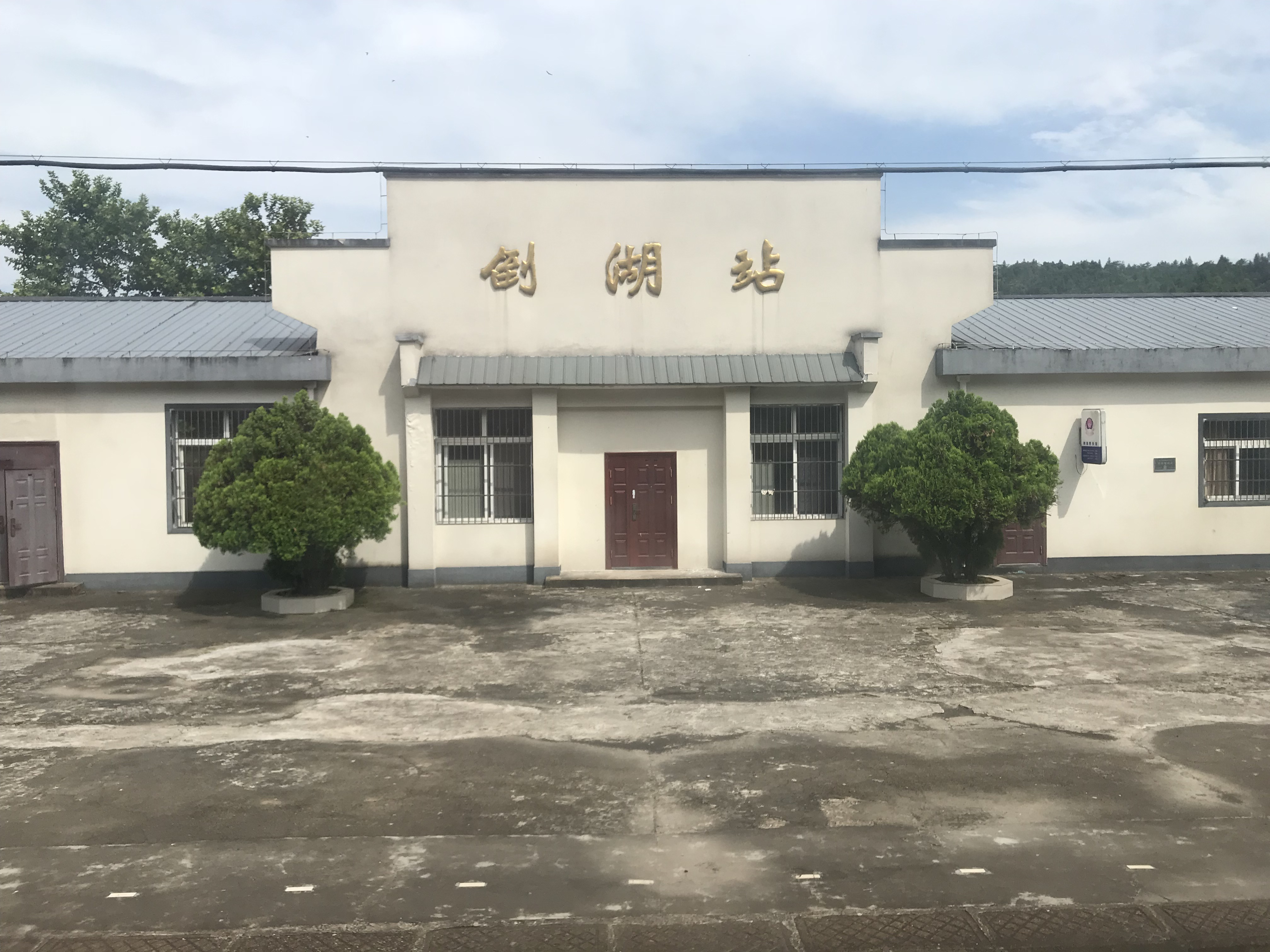 201806 Station Building of Daohu Station